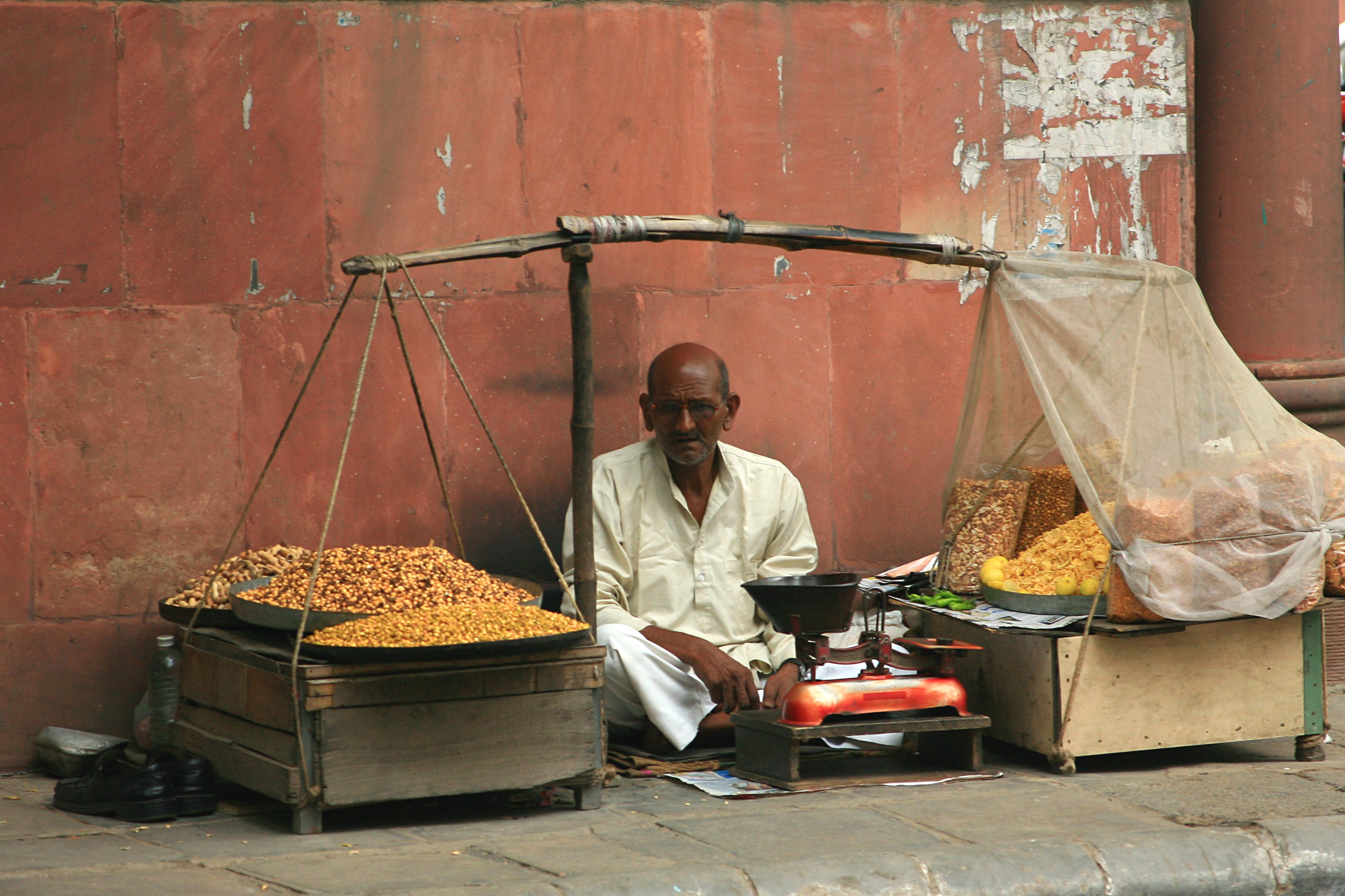 This merchant at Khan Market works around a lot of nuts! I'm sure you can relate to this... I can. I couldn't resist tripping the shutter here. I loved the blend of brown tones in this scene.